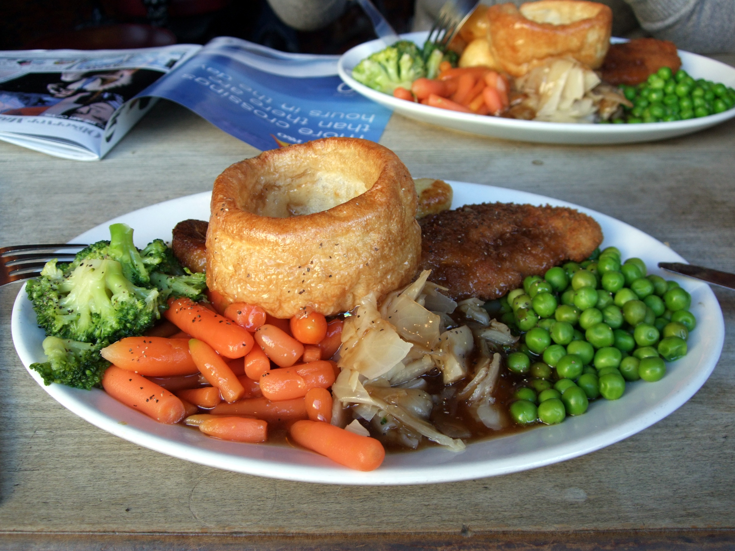 A vegetarian roast, with a cheesy quorn fillet. Nothing amazing or posh, just tasty and filling. At The Village, Orford Road.